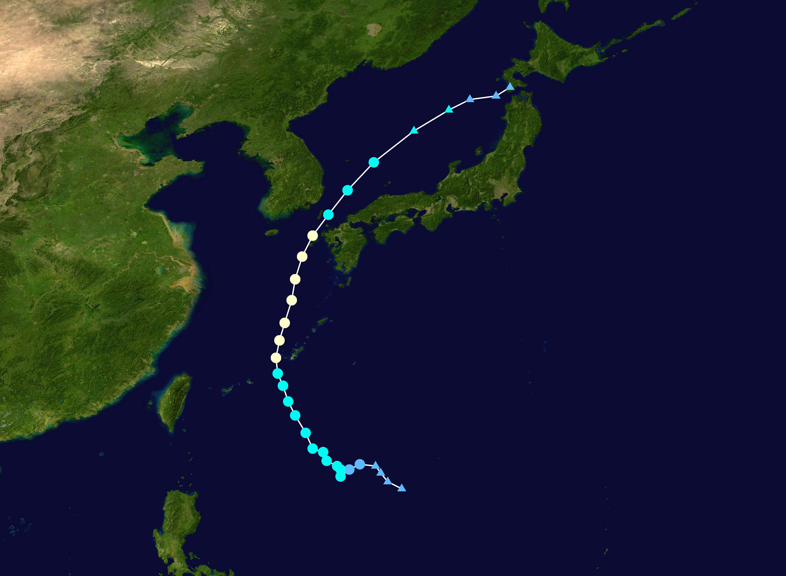 Track map of Typhoon Prapiroon of the 2018 Pacific typhoon season. The points show the location of the storm at 6-hour intervals. The colour represents the storm's maximum sustained wind speeds as classified in the Saffir–Simpson scale (see below), and the shape of the data points represent the nature of the storm, according to the legend below. Saffir–Simpson scale Tropical depression≤38 mph≤62 km/h Category 3111–129 mph178–208 km/h Tropical storm39–73 mph63–118 km/h Category 4130–156 mph209–251 km/h Category 174–95 mph119–153 km/h Category 5≥157 mph≥252 km/h Category 296–110 mph154–177 km/h Unknown Storm type Tropical cyclone Subtropical cyclone Extratropical cyclone / Remnant low / Tropical disturbance / Monsoon depression